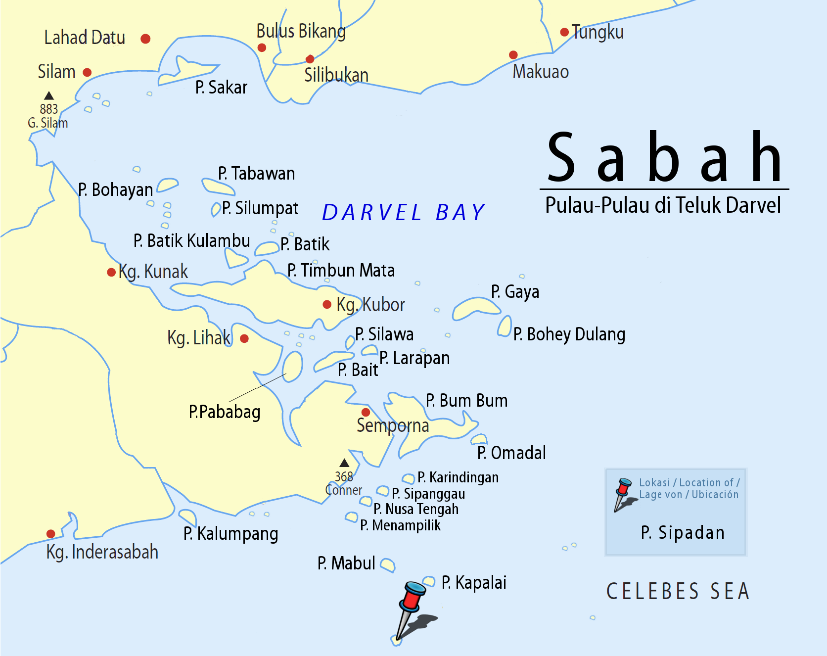 Sabah: Scheme of Islands in the Darvel Bay with Pushpin Marker for Pulau Sipadan (which is not part of the Darvel Bay)